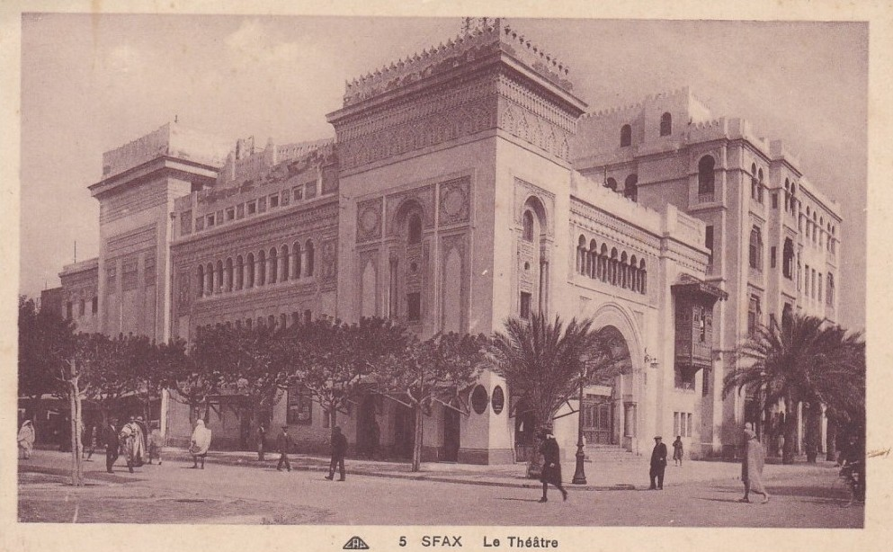 Sfax's theater in the 20th century